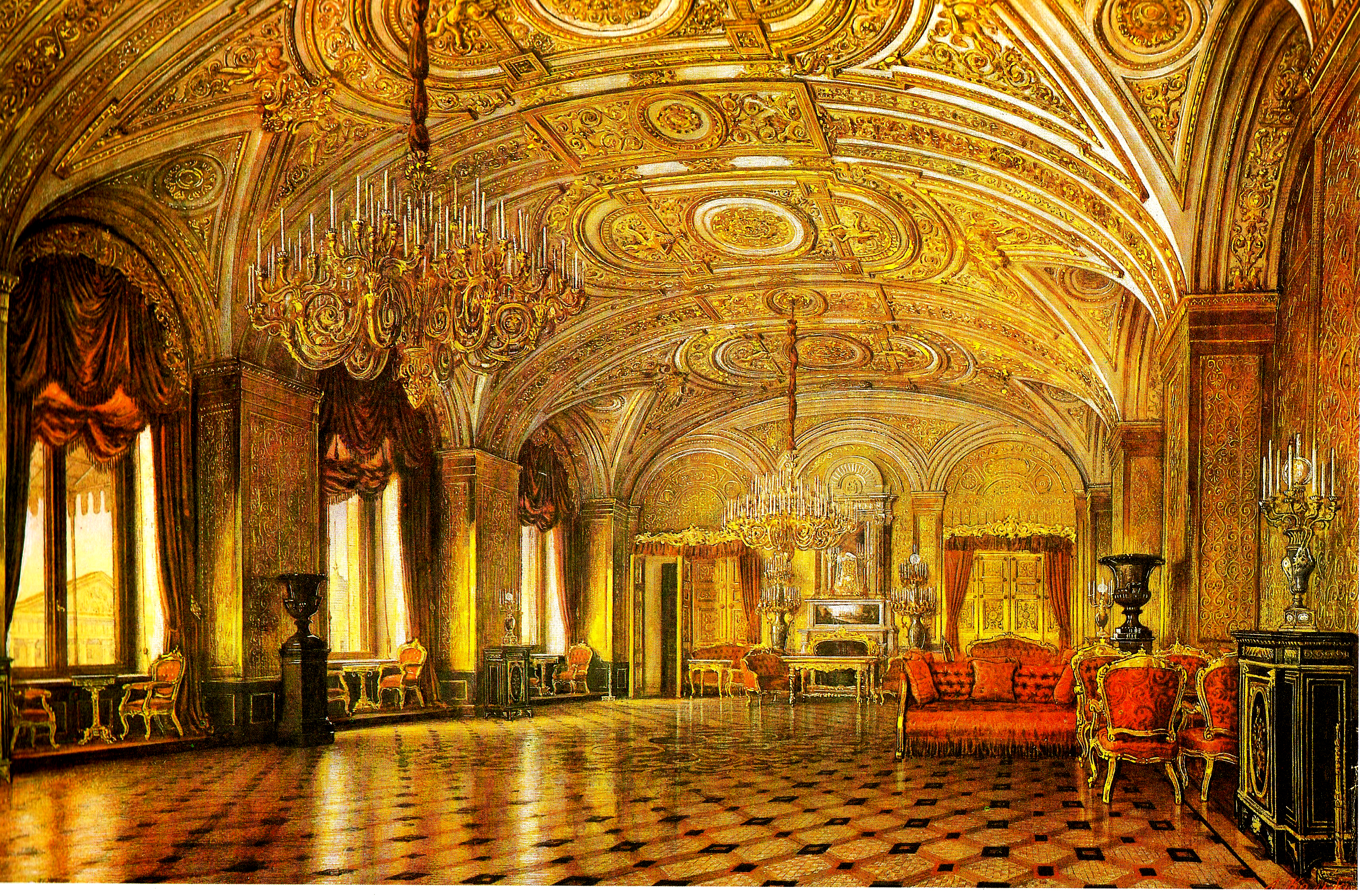 Interiors of the Winter Palace. Golden Drawing Room